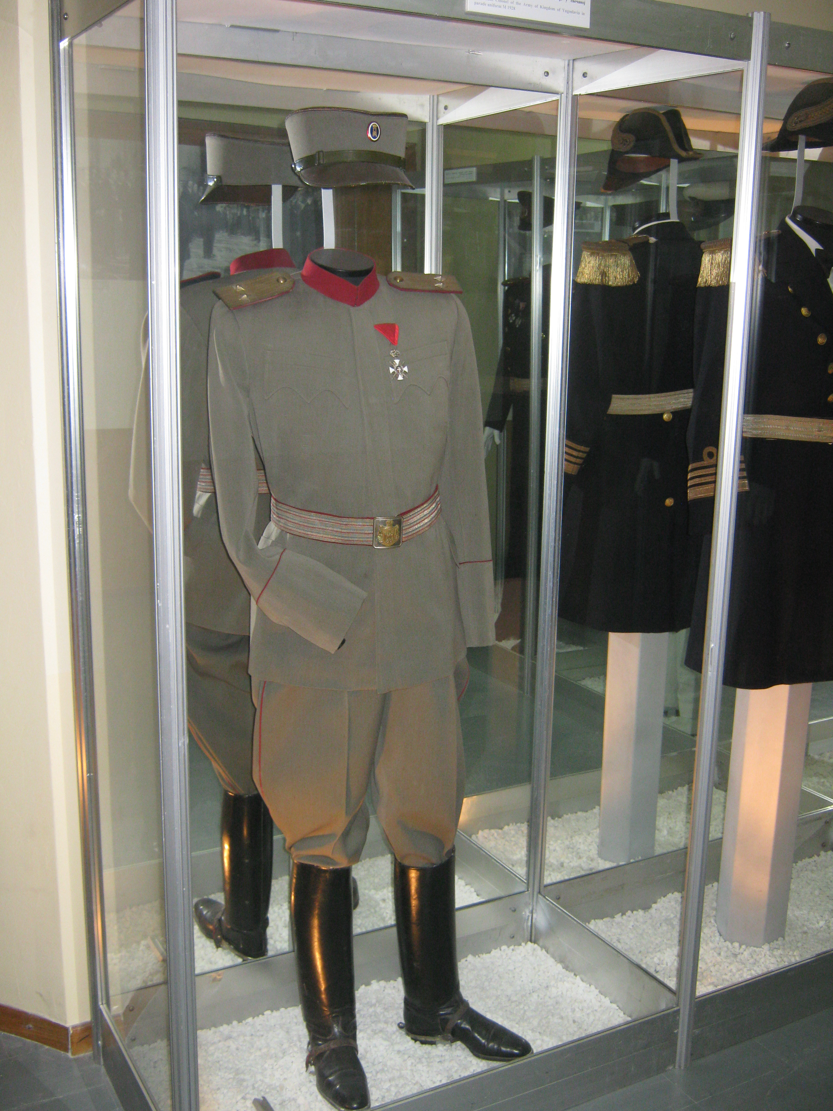 Officer's uniform Yugoslav Royal Army Photo taken in:Military museum Belgrade